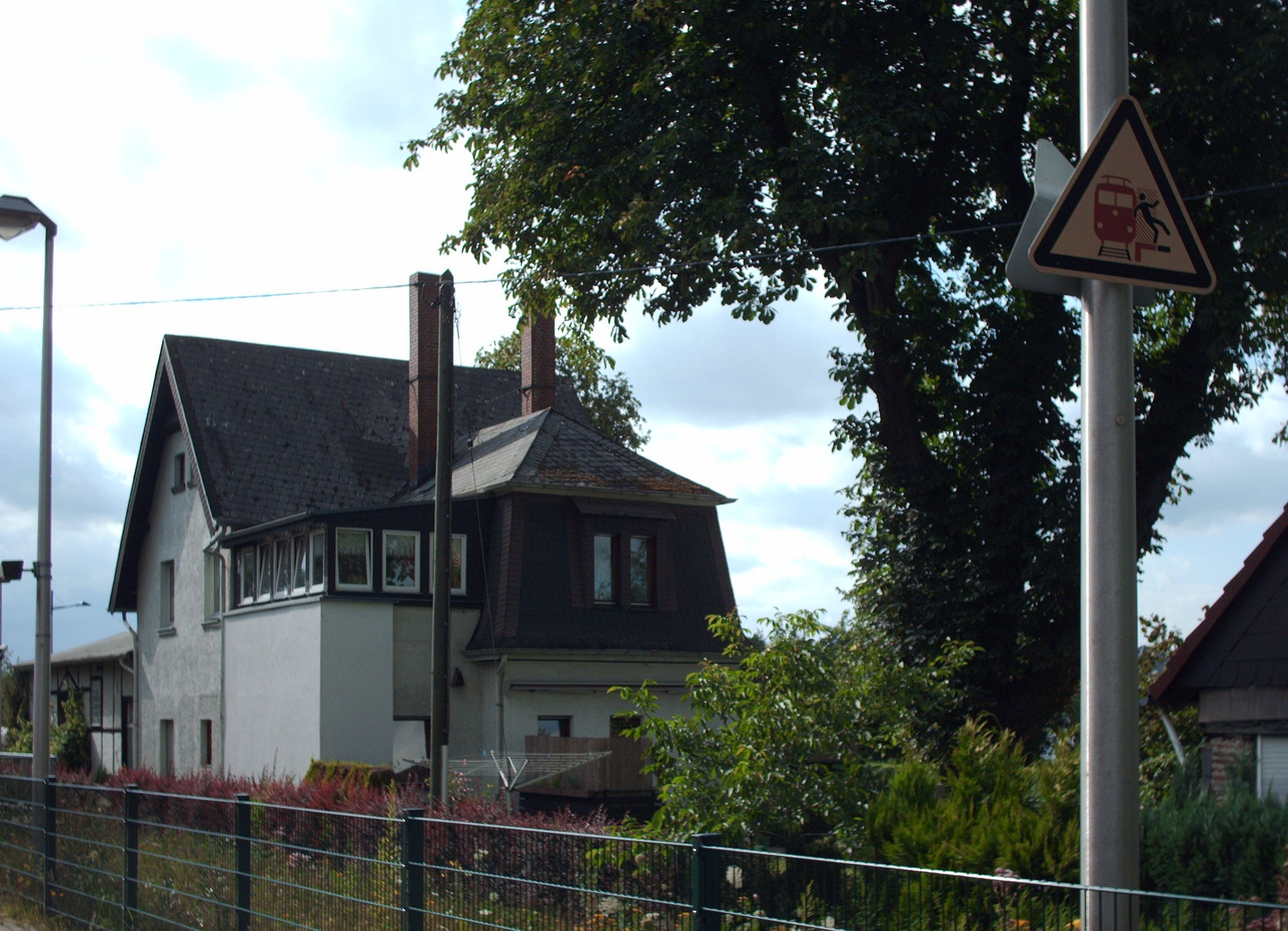 Hennen station, Iserlohn, Germany check usage